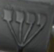 Part of Tefillin